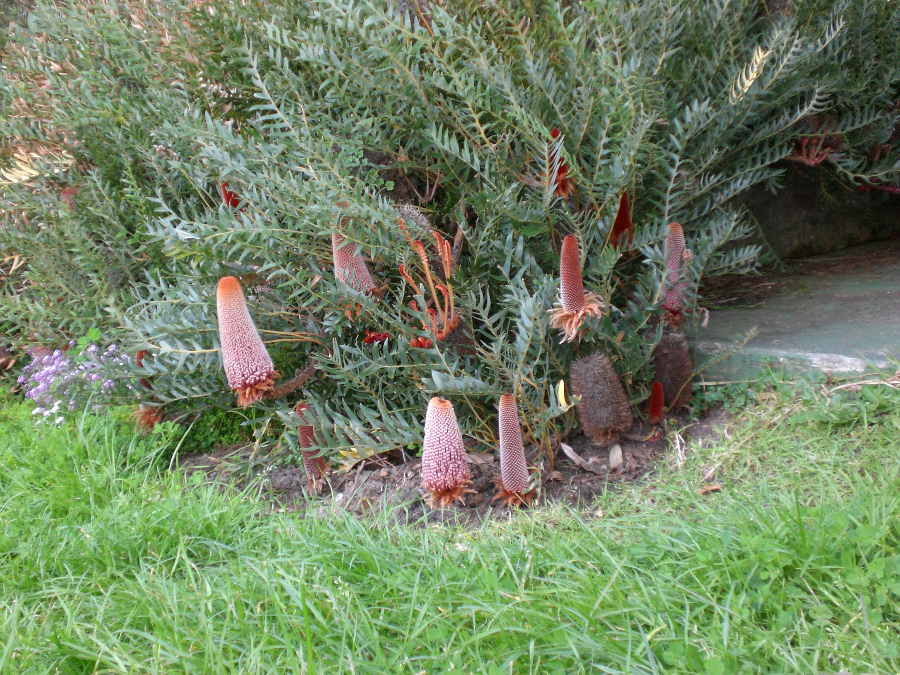 Banksia blechnifolia photographed in a street-side residential garden. It is situated in the suburb of Albany, Western Australia, on a steep street at the foot of Mount Melville.